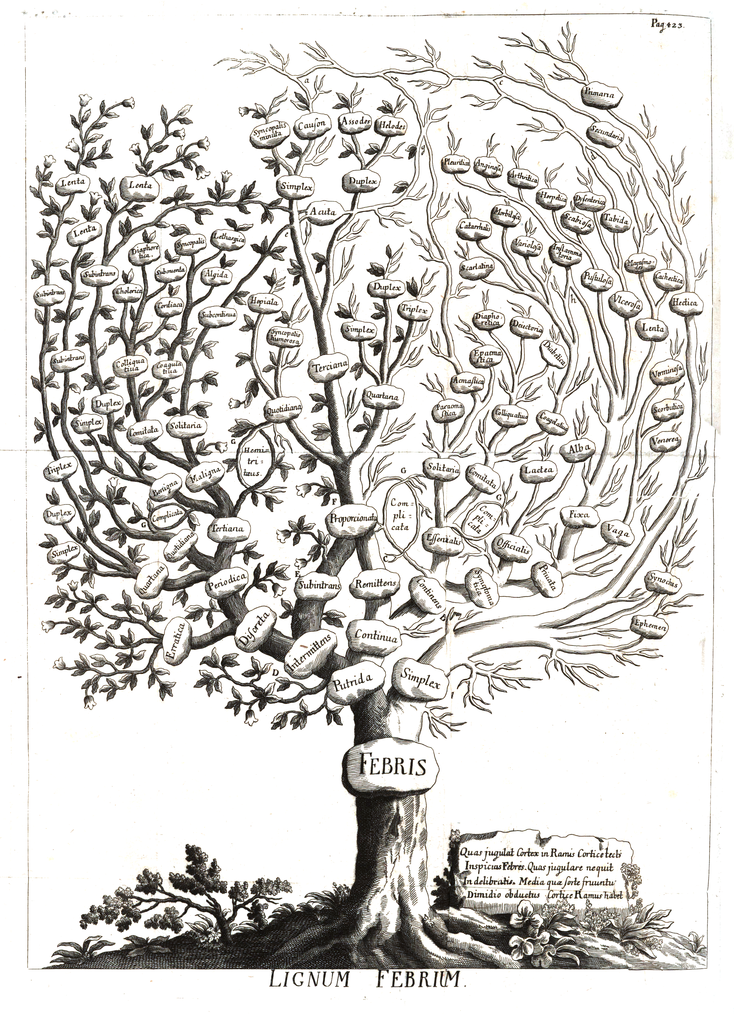 Classificatory tree of fevers (Lignum febrium). Engraving from Francesco Torti's Therapeutice specialis ad febres periodicas perniciosas (1756)